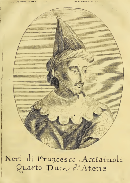 Neri_II_Acciauioli duchy of Athens